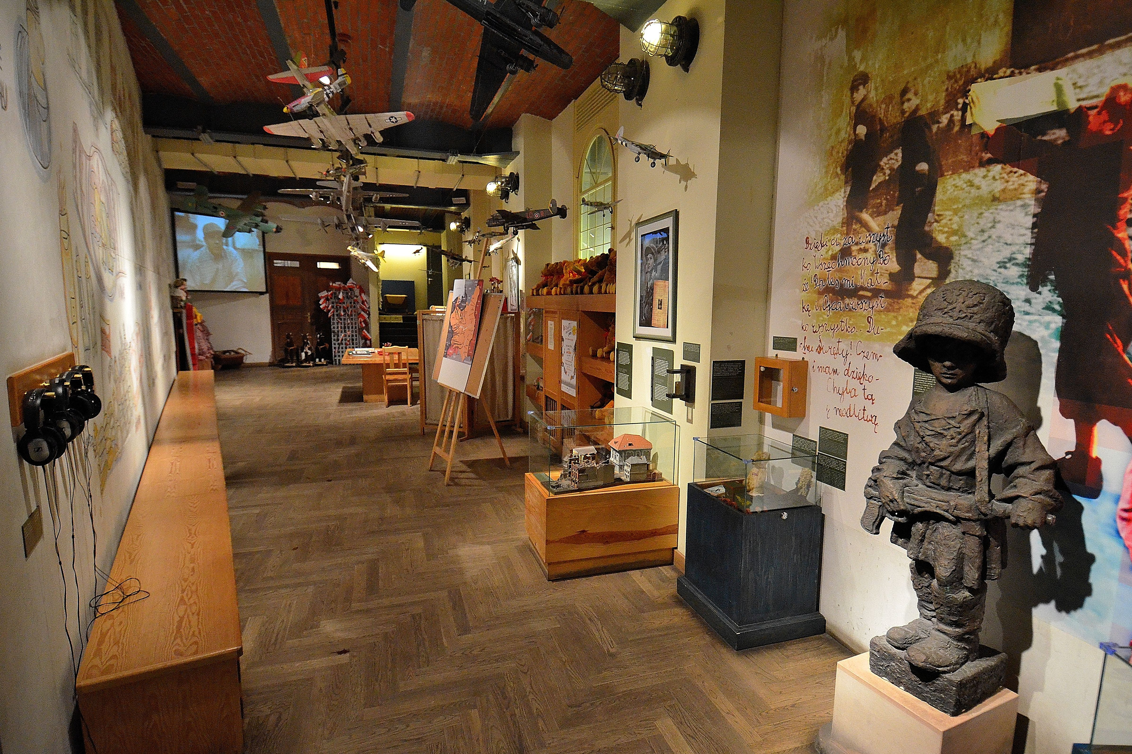 Little Insurgent Hall in the Warsaw Uprising Museum